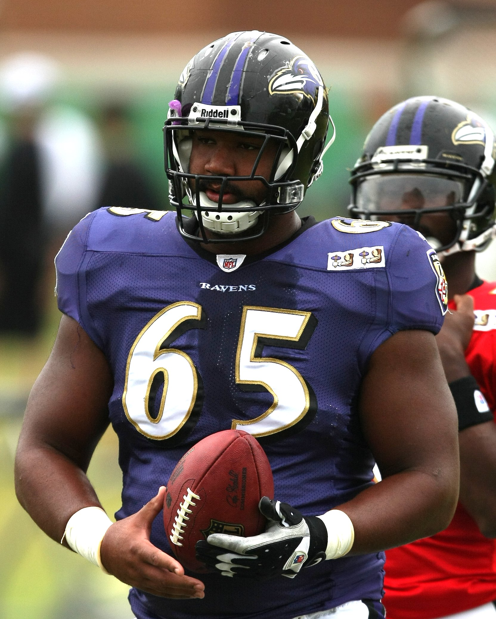 Baltimore Ravens Training Camp August 6, 2009